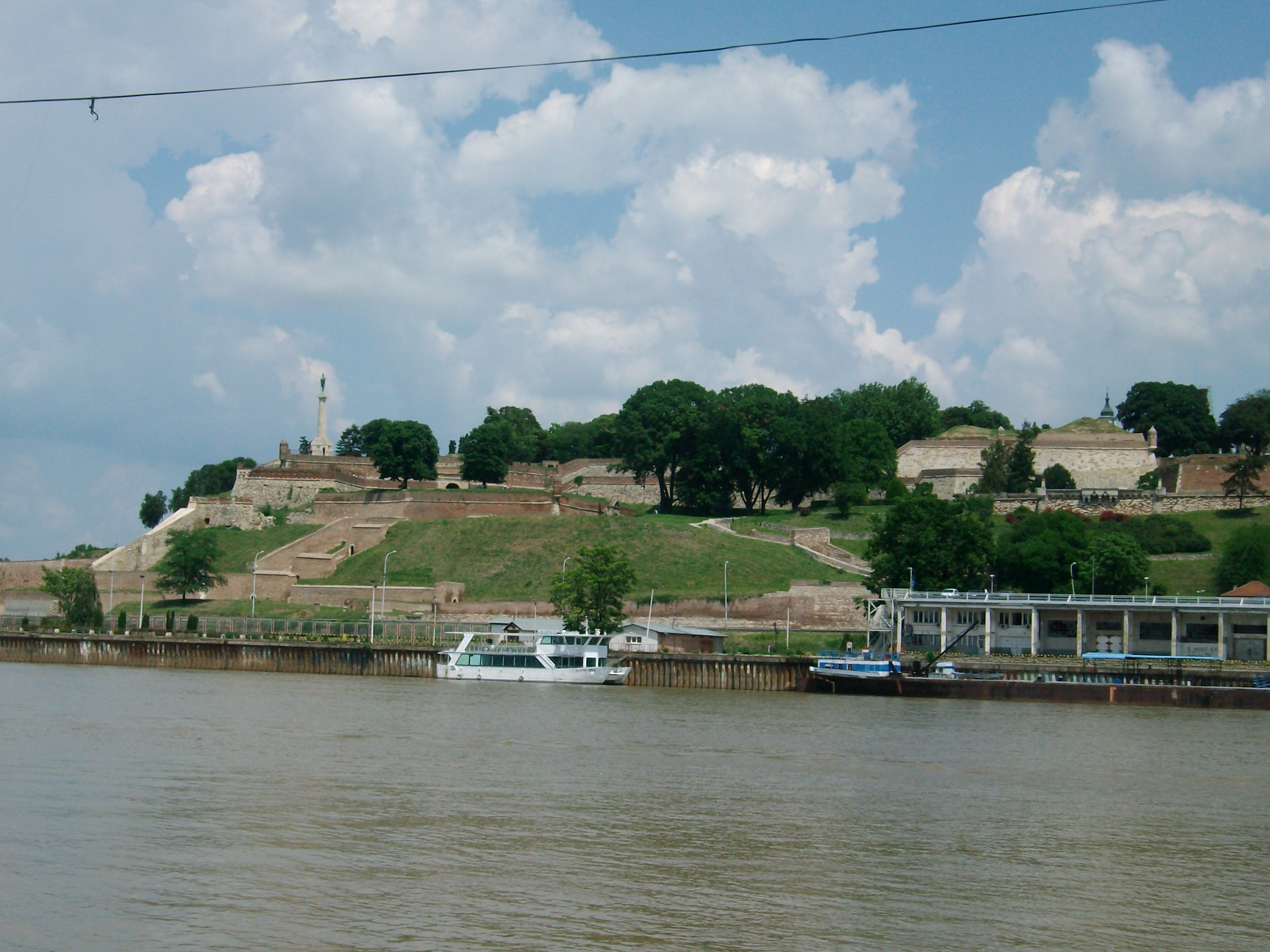 View on Belgrade fortres from Sava river quay